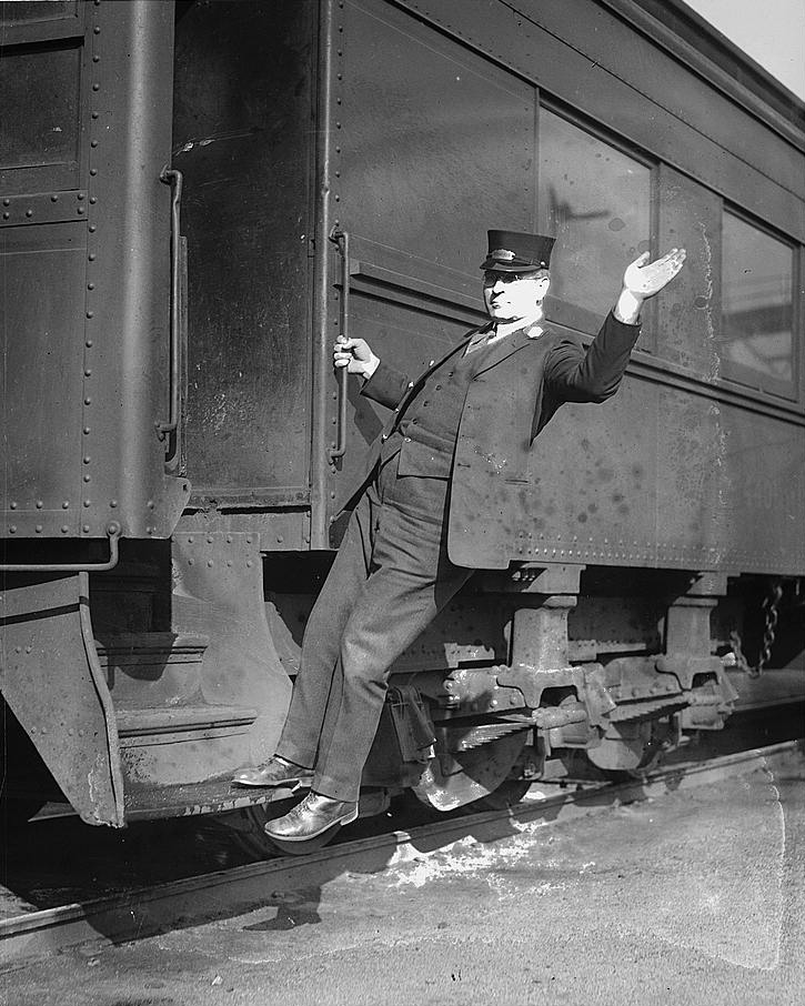 Brakeman Patrick Lance, Pa.